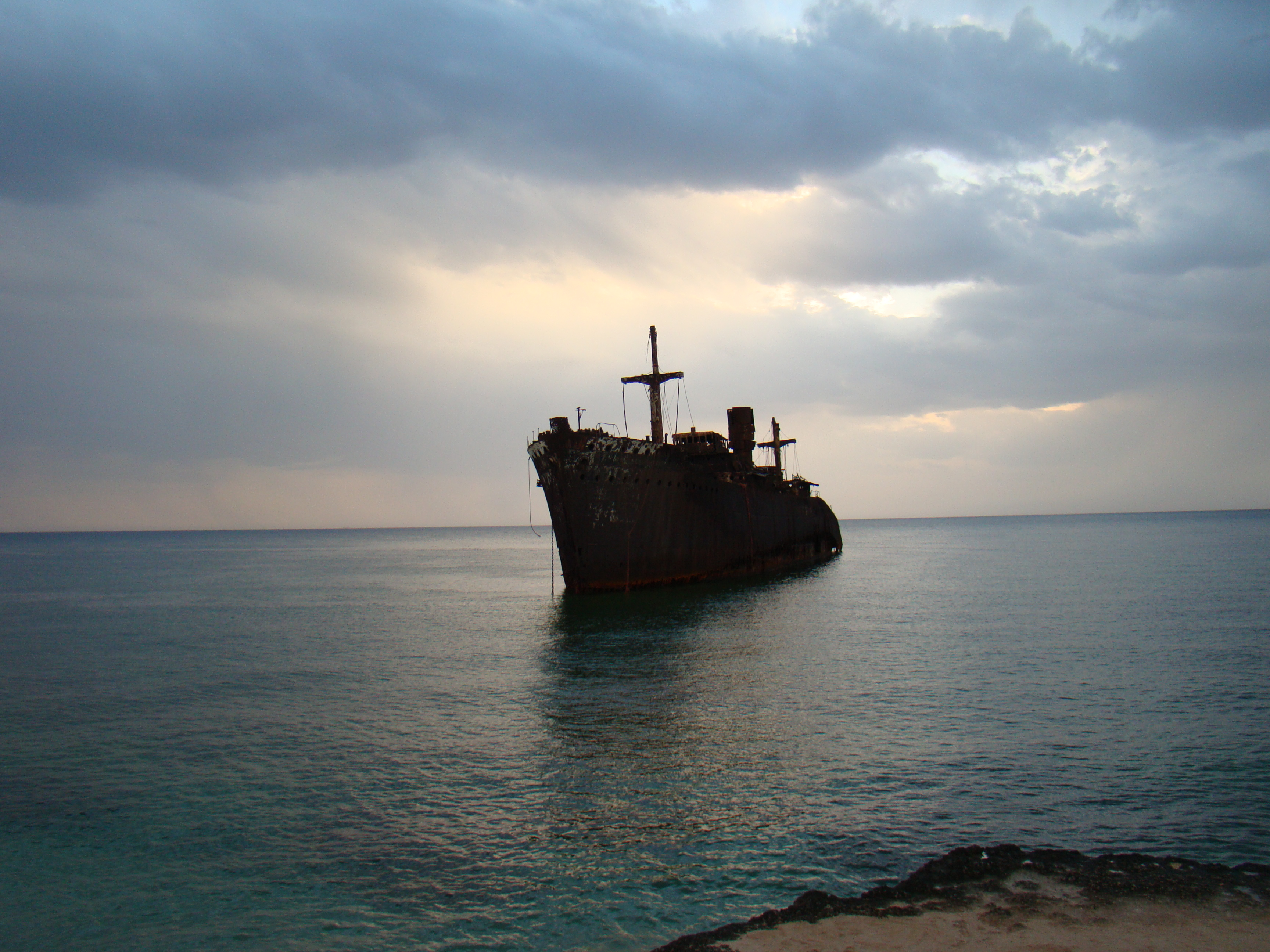 A Greek ship sinks in Kish Islan Persian Gulf